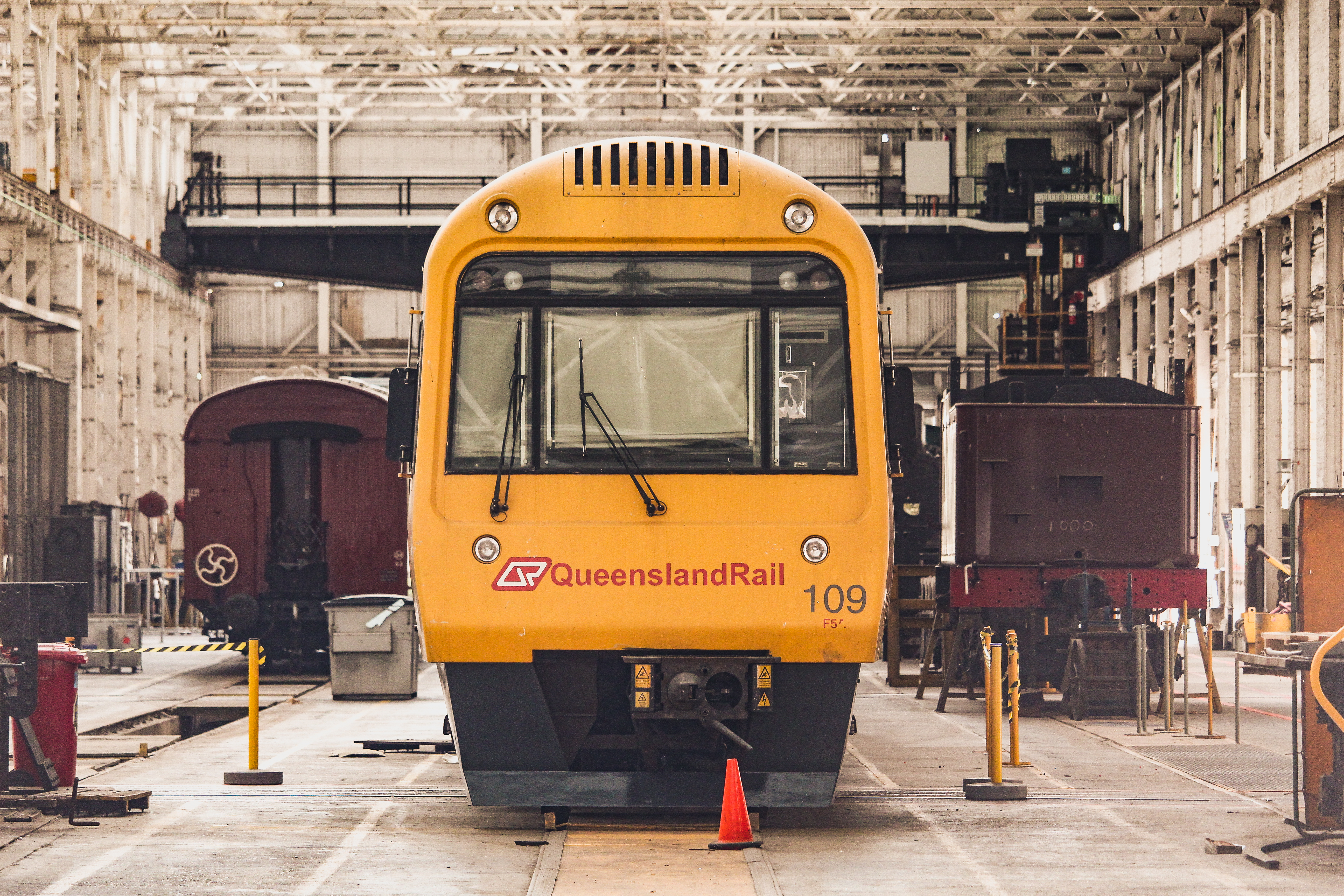 IMU 109